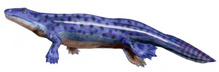 Acanthostega pencil drawing, digital coloring, based on reconstruction by Ahlberg, 2005 - rotation of the orignal image.